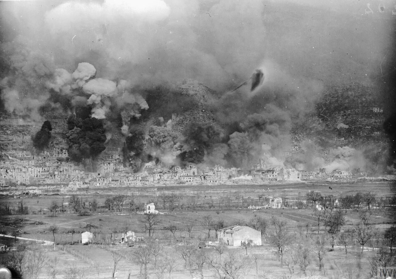 Second Phase 15 February - 10 May 1944: The town of Cassino shrouded in black smoke during the Allied barrage on 15 March 1944. Over 1,250 tons of bombs were dropped on this occasion.